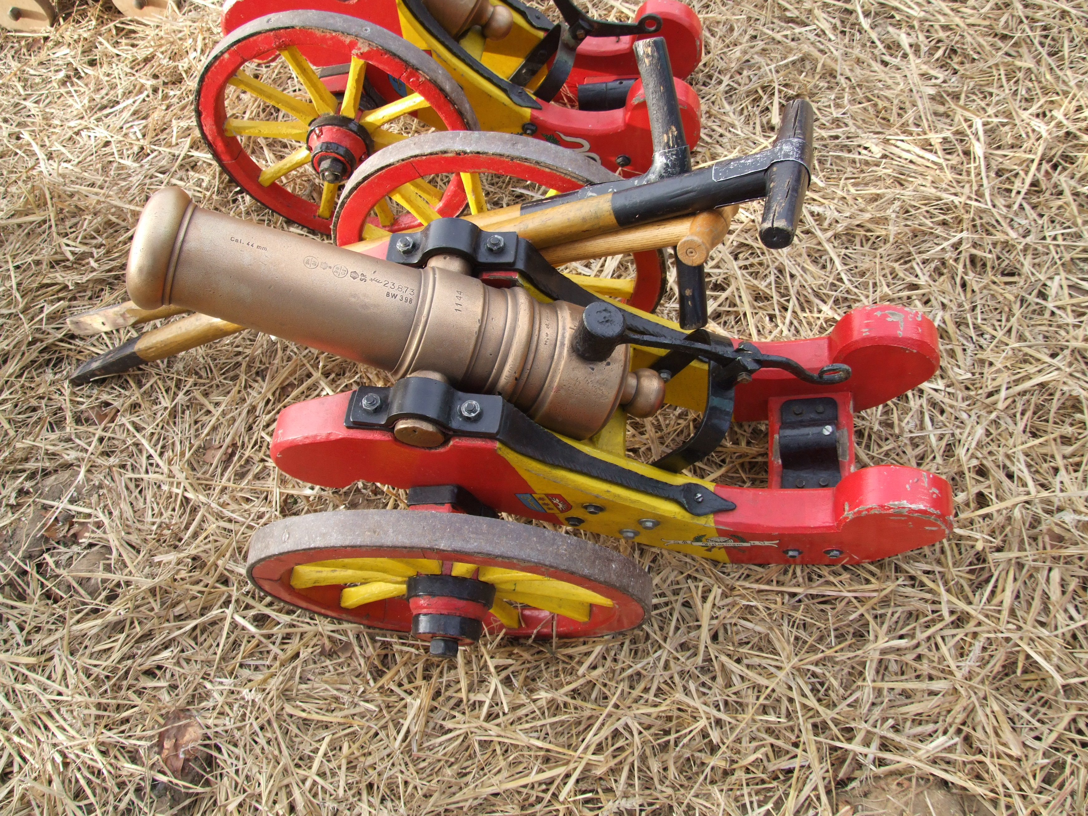 salute gun